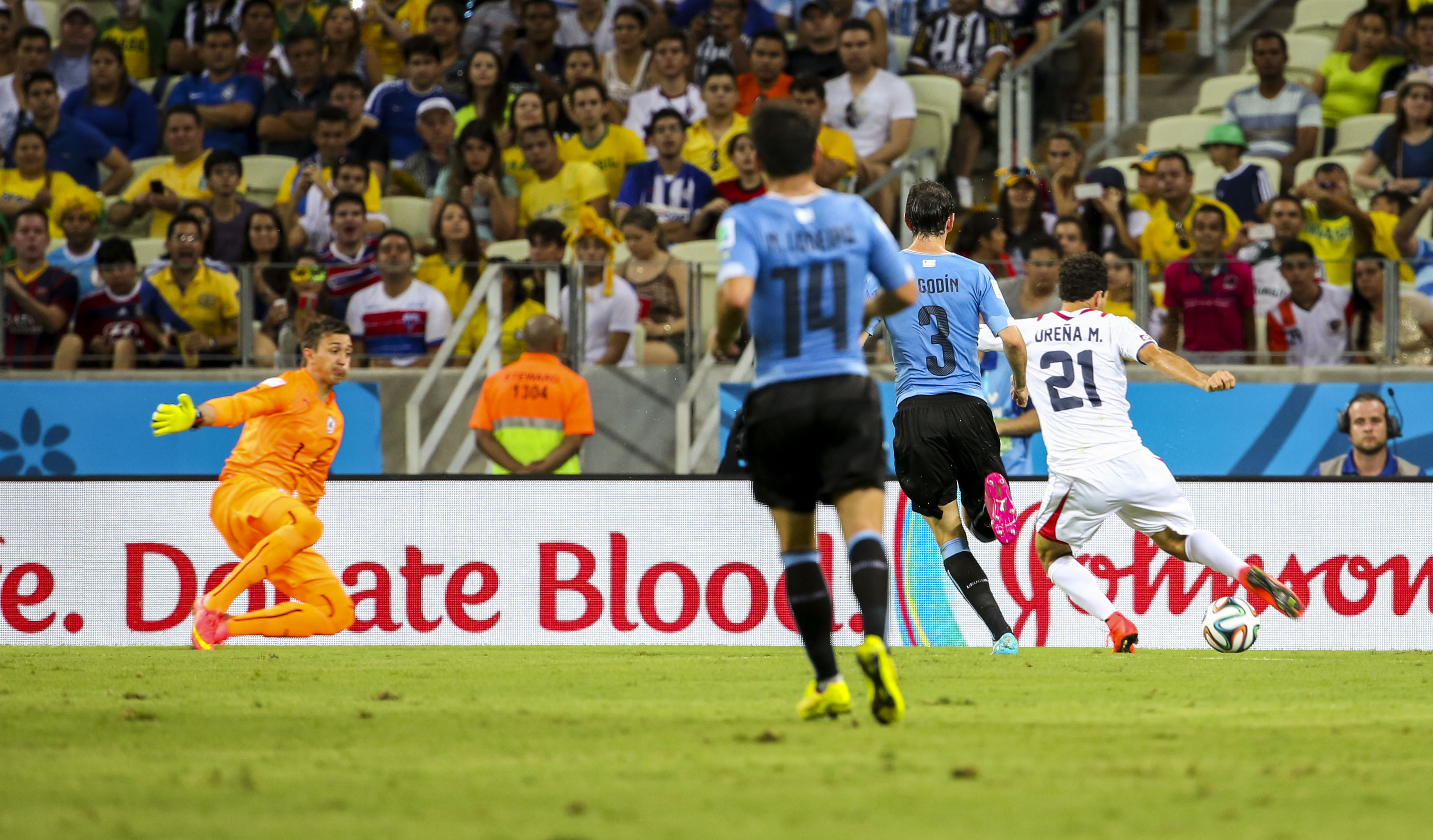 Uruguay and Costa Rica match at the FIFA World Cup 2014-06-14